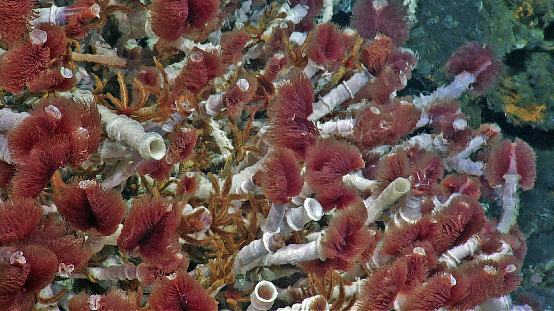 A lush community of vibrant red tube worms grows on a black smoker chimney in the ASHES hydrothermal field. The tube worms, which are hosted in white housings about the diameter of a person's small finger, are intergrown with brown palm worms. (Courtesy of University of Washington, NSF/Ocean Observatories Initiative/Canadian Scientific Submersible Facility)